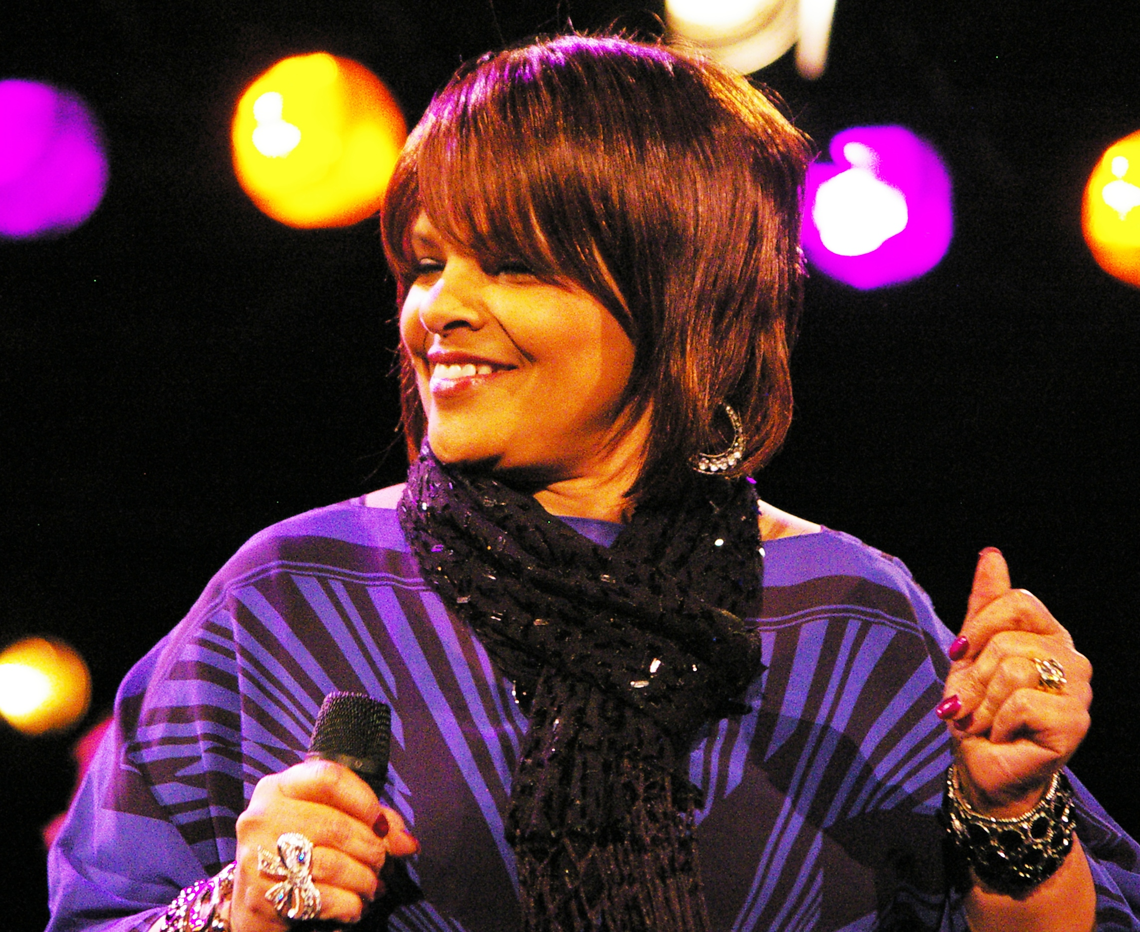 Teeny Tucker Jazzwoche Burghausen